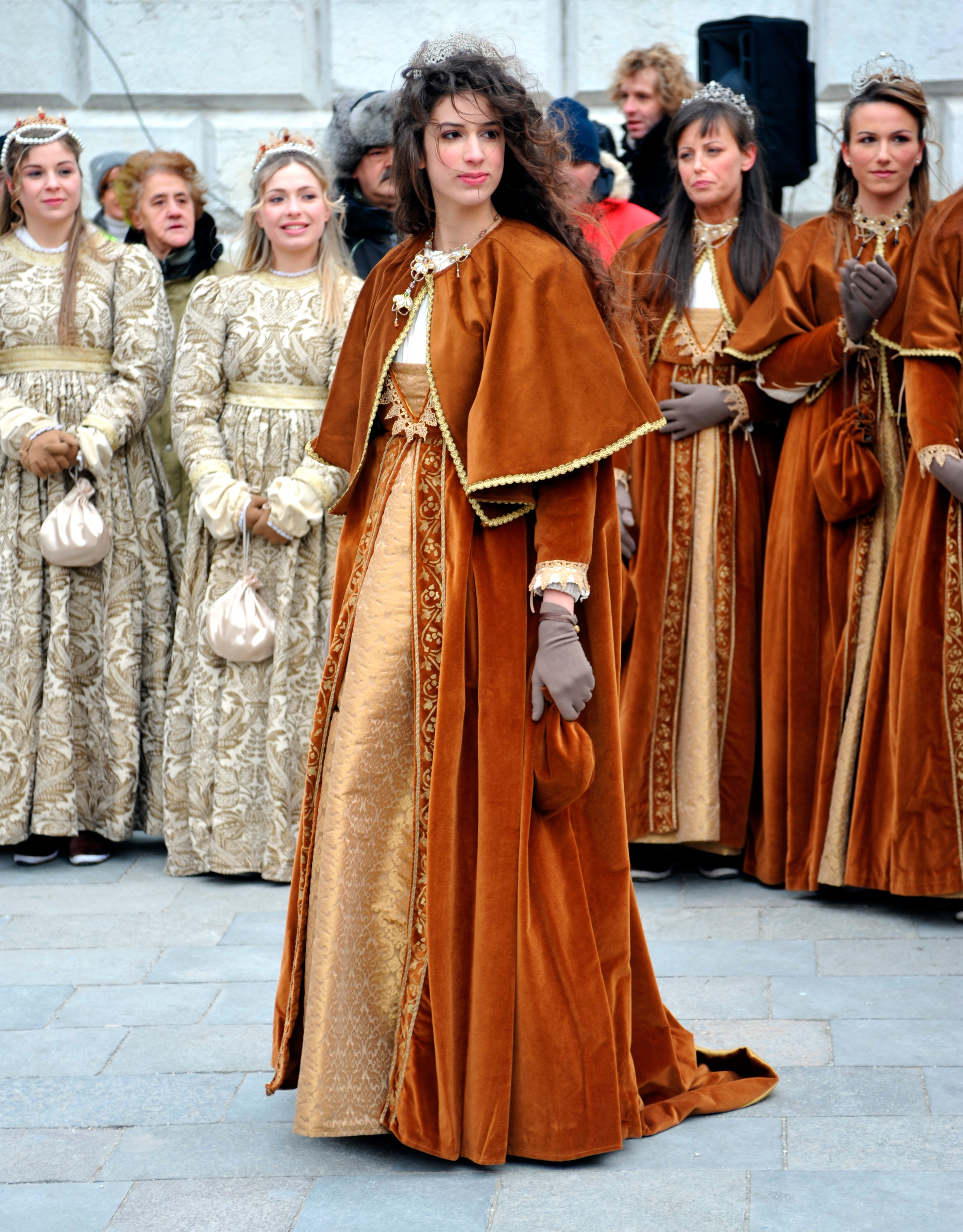 Festa delle Marie, Carnival of Venice